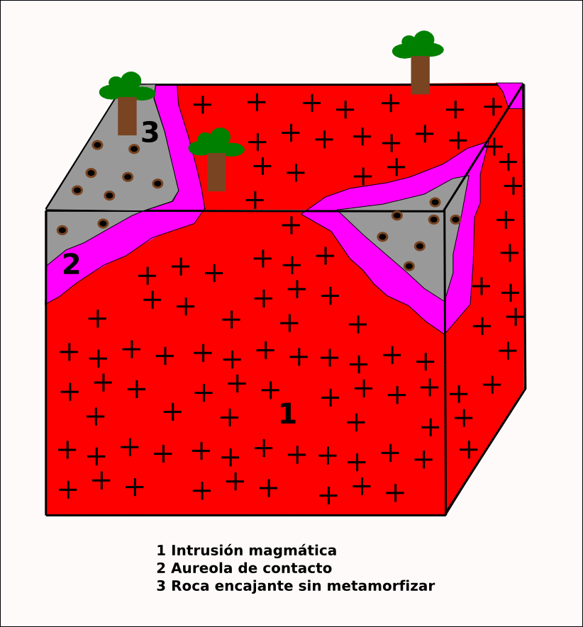 Metamorphic aureole